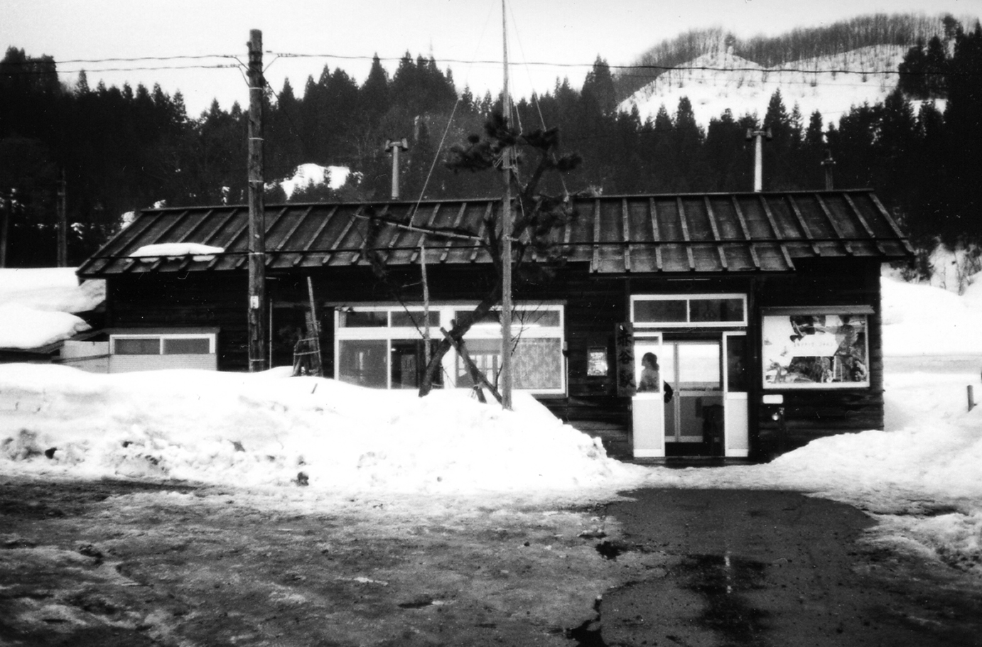 JNR Akatani station,Akatani Line,Niigata Pref.,Japan